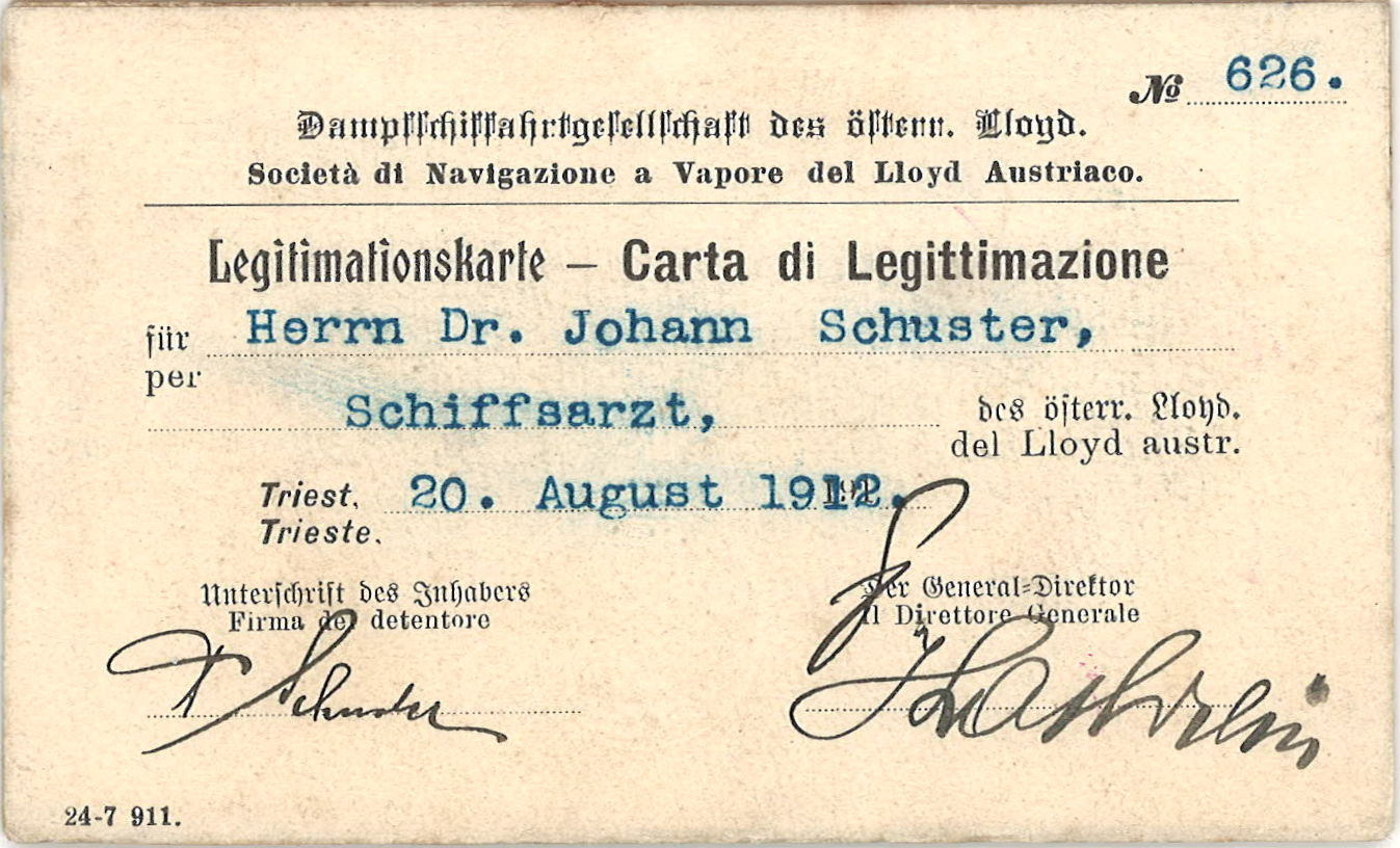 Identity card of the Austrian Lloyd for the ship's doctor Johann Schuster 1912